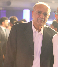 Pakistan Super League Launch #PSLt20 Cricket #AbkhelKDikha Najam Sethi & Umer Toor